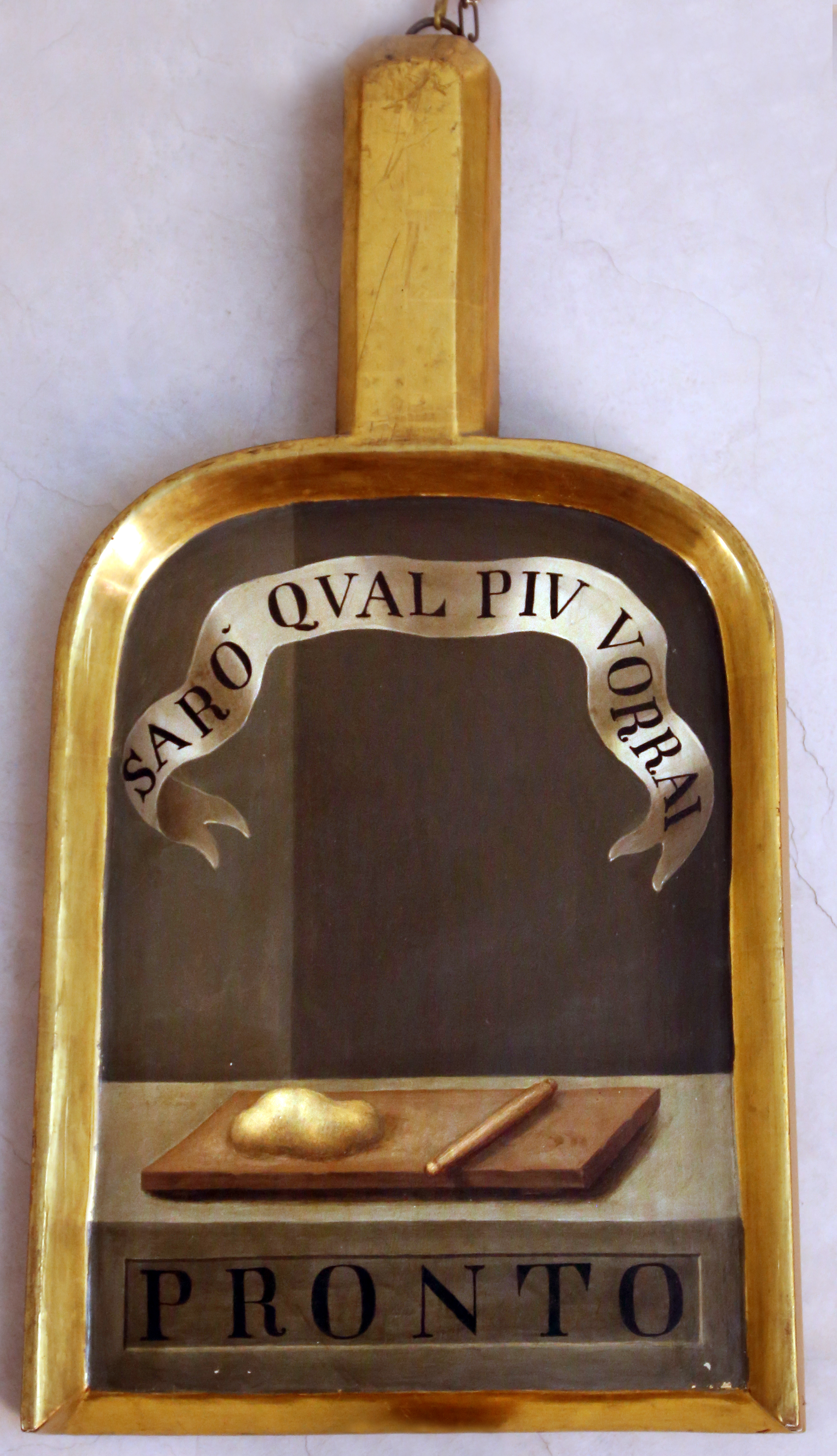 Shovels of Accademici della Crusca